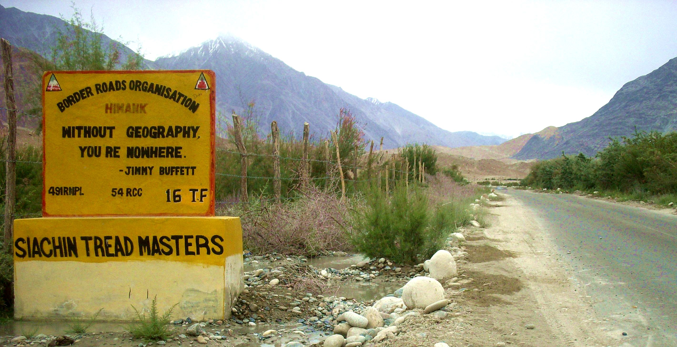 Jimmy Buffett's quotation "Without Geography you're nowhere" on a Himank BRO road sign of Project HIMANK in the Ladakh region of Northern India.